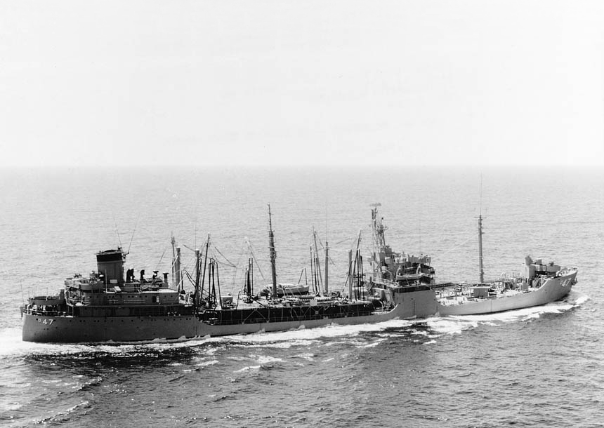 The U.S. Navy fleet oiler USS Neches (AO-47) underway near Subic Bay, Philippines, on 18 February 1970.